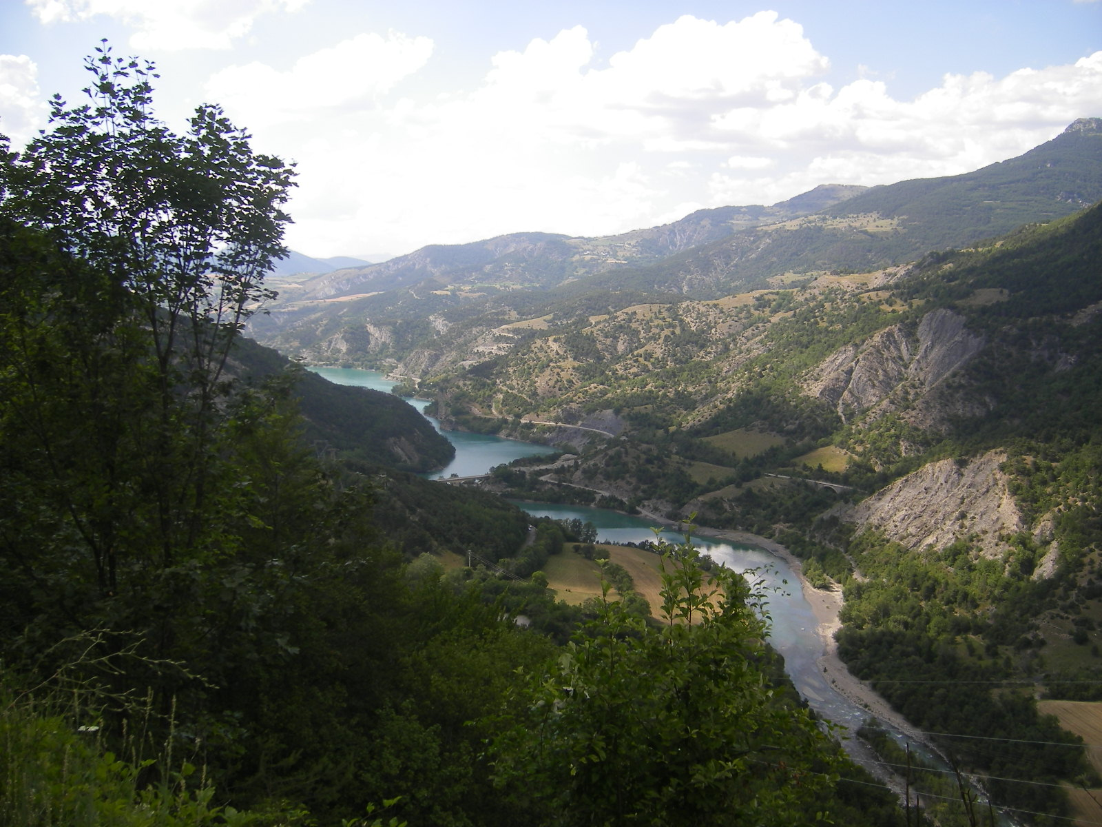 The western end of the Ubaye Valley, where the Ubaye flows to Serre Ponçon reservoir near Le Lauzet-Ubaye.